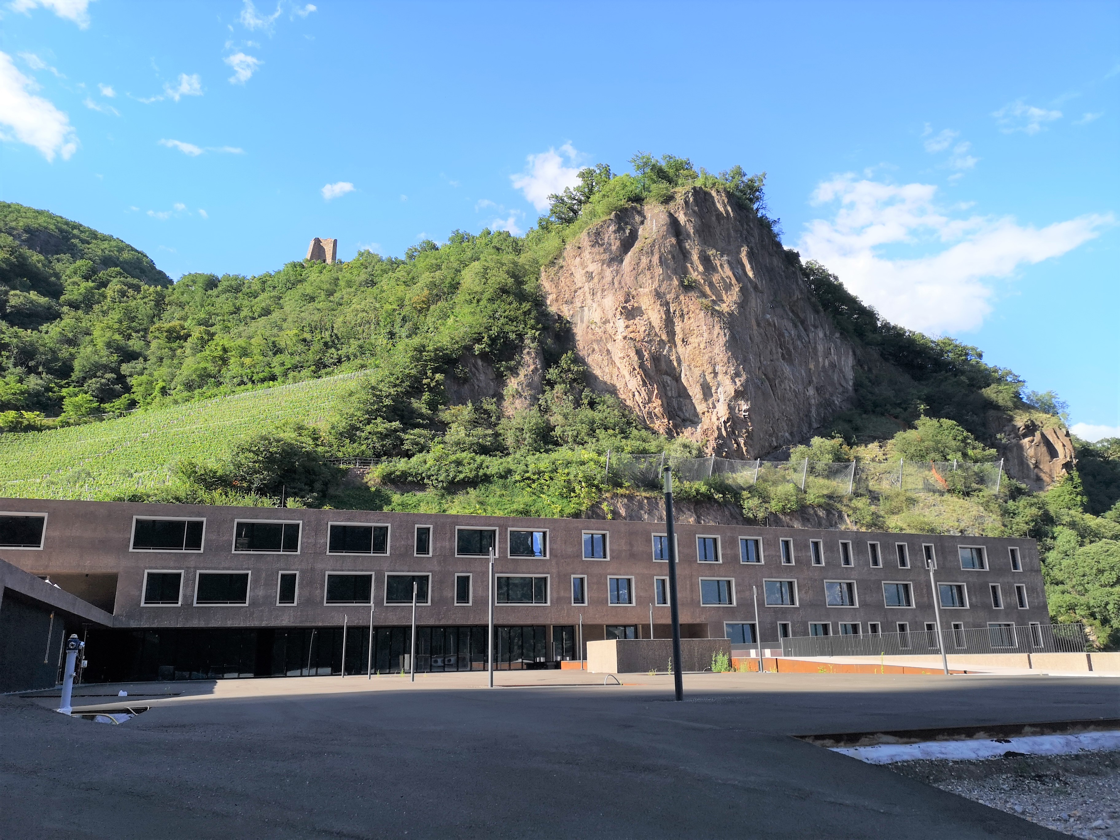 Versuchszentrum Laimburg near Bozen 2020